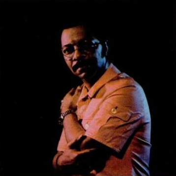 Trade ad for Grady Tate's single "Lady". To better adapt it to his respective Wikipedia article, the ad was cropped and cleaned in a graphics editing program. The original can be viewed at the source below.